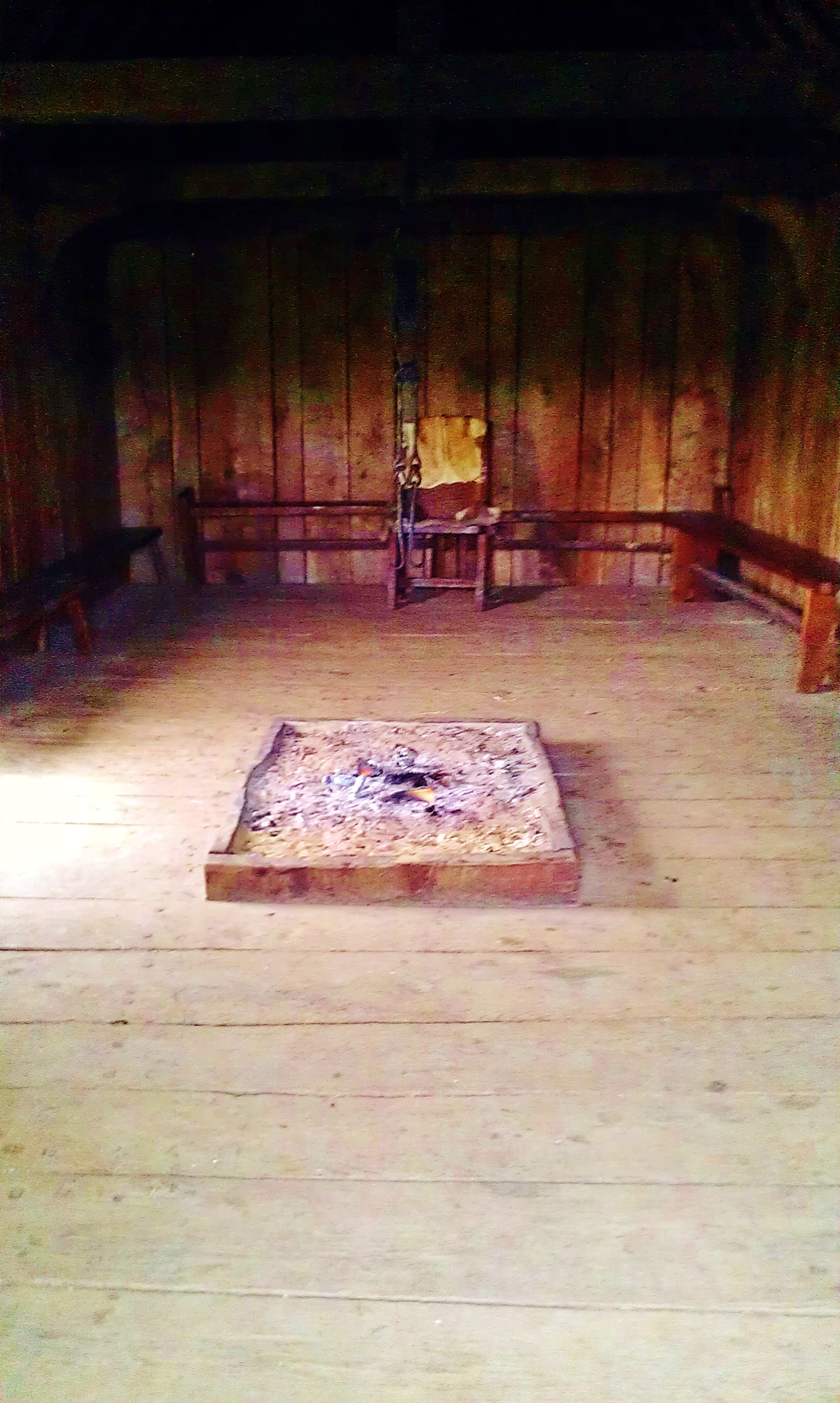 The interior of the hall at West Stow Anglo-Saxon village, constructed in the style of buildings from Anglo-Saxon England. Built in 2005, this image was taken in summer 2012.